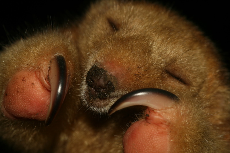 Cyclopes didactylus zoo specimen